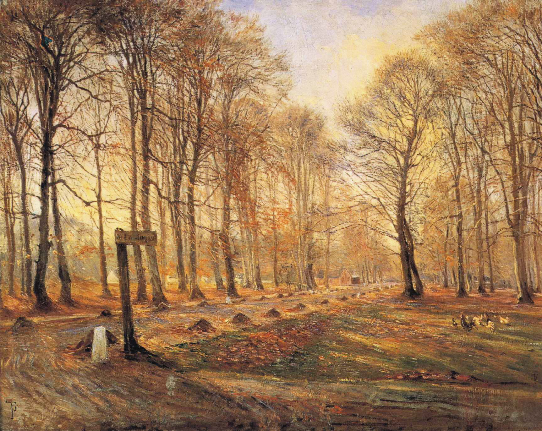 Material and Dimensions: Oil on canvas, 66.5 x 84.5 cm